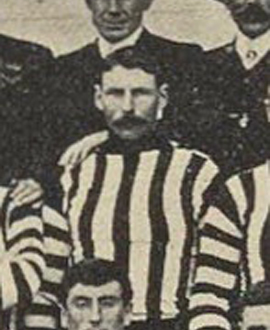 Photograph of Robert Michael in 1906